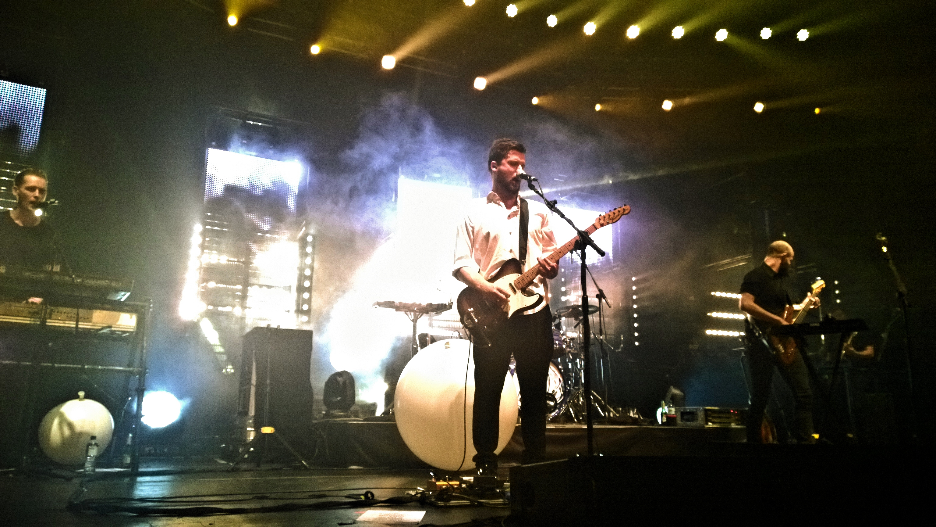 White Lies, Roundhouse, London